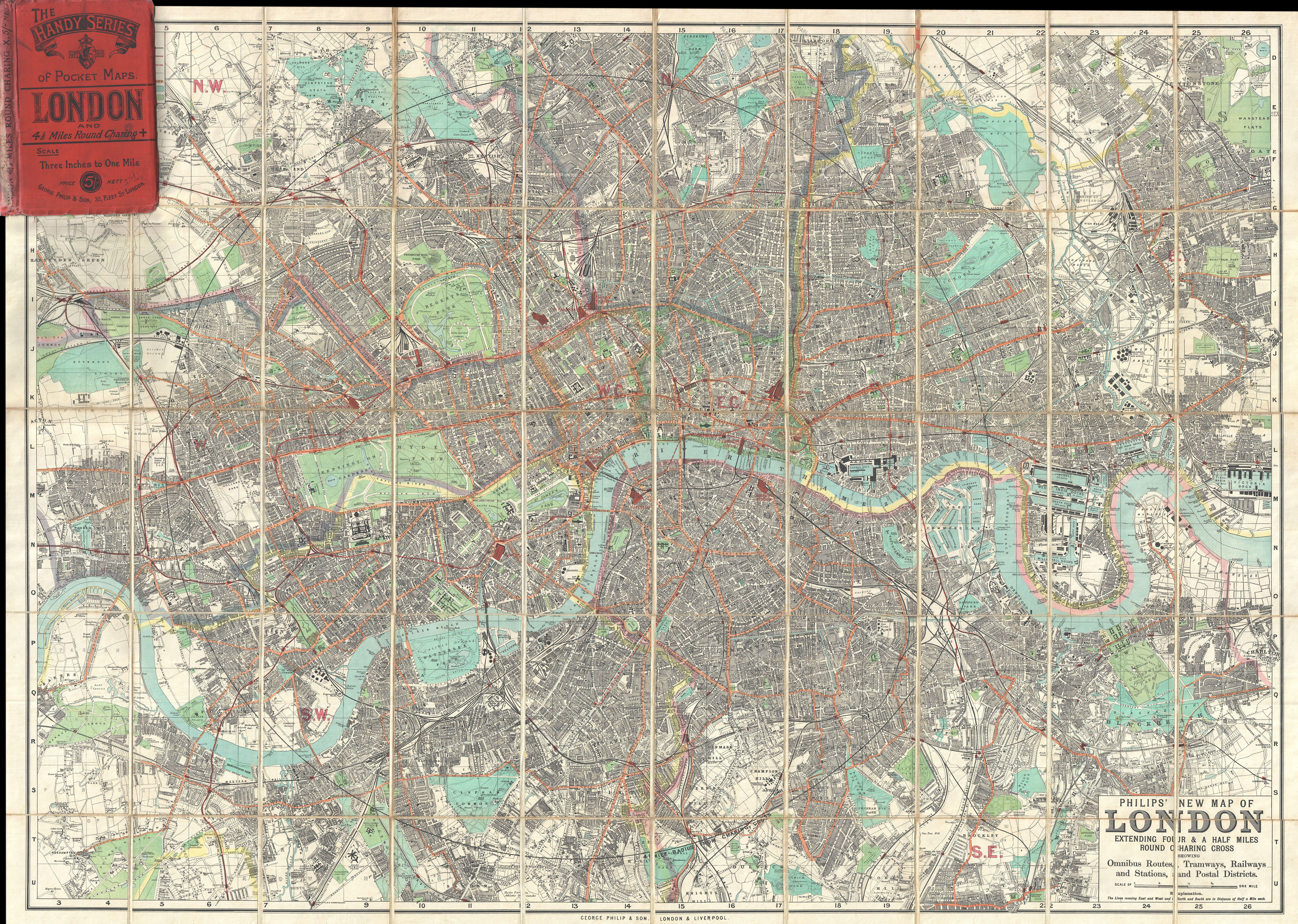 A stunning example of George Philip's c. 1985 folding pocket map of London, England. Covers the urban center of London from Barnes in the west to Victoria Dock in the east, as well as north as far as Finsbury Park and south as far as Brockwell Park, thus covering London in a roughly 4.5 mile radius from Charing Cross. Offers incredible detail at a scale of 3 inches to 1 mile, with notation for all major streets, trains lines, parks, docks, districts, and important buildings. Issued as part of the Handy Series of Pocket Maps issued by George Philip & Son from their offices at 32 Fleet Street, London, England.